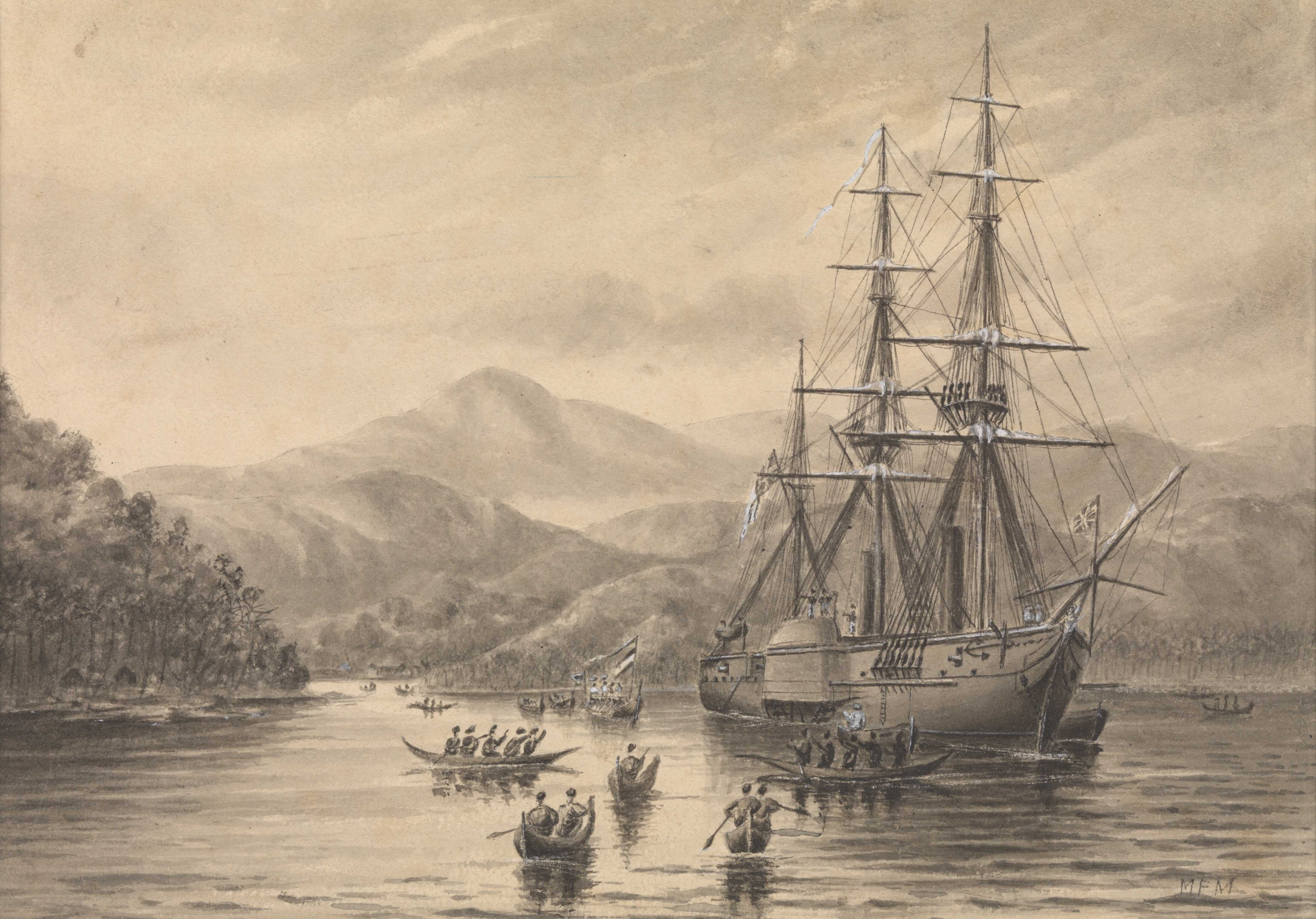 HMS 'Basilisk', anchored in Threshold Bay, New Guinea, 28 May 1874. Inscribed on back of drawing: “HMS ‘Basilisk’, Captain John Moresby 1871. 28th May [1874]. In Threshold Bay, New Guinea. Anchored off a delicious little cove of this large open Bay – The Rajah of Salwatti who is supreme ruler came off to visit us in a large prahu rowed by about 20 men”. See Moresby's "Discoveries & Surveys in New Guinea..." (John Murray, 1876), Chapter XVIII, for this incident.